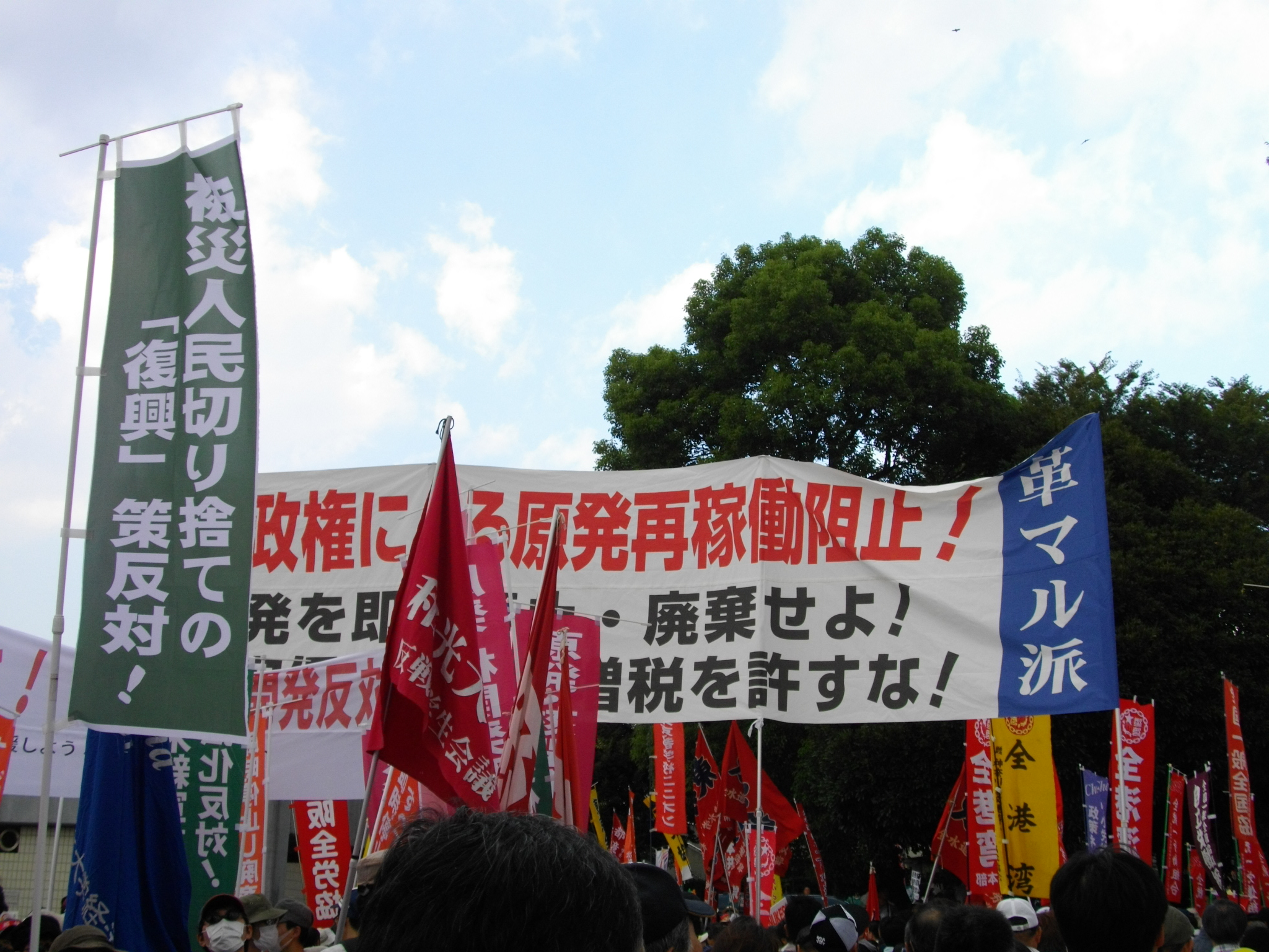 Anti-Nuclear Power Plant Rally on 19 September 2011 at Meiji Shrine Outer Garden